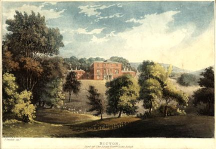 Devon . Bicton . Houses . Bicton House . From park . 1825